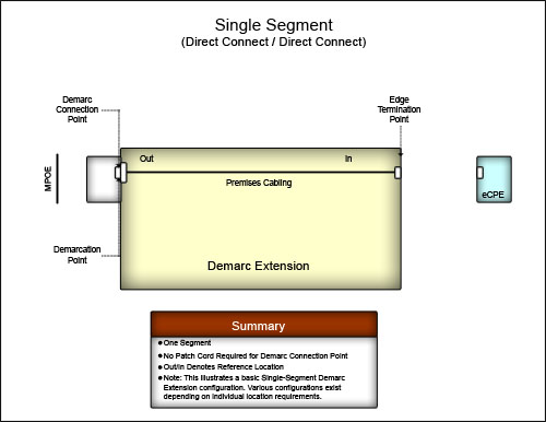 Single Segment, Direct Connect/Direct Connect Demarc Extension